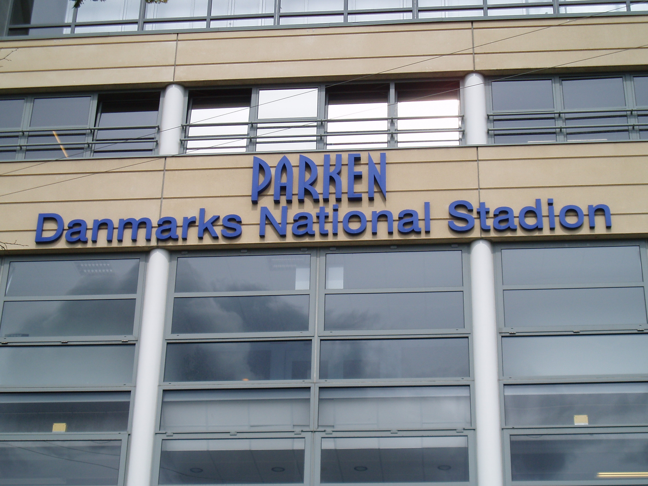 Sign on "Danish National Stadium" Parken. The name is spelled wrong as it should be "Danmarks Nationalstadion".